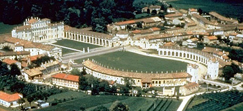 VILLA MANIN